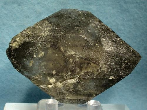 Blödite Locality: Soda Lake, Carrizo Plain, San Luis Obispo County, California, USA (Locality at ) Size: 7.0 x 4.8 x 1.9 cm. Blödite is a RARE hydrated sulfate found in oceanic and lacustrine salt deposits and in nitrate deposits in arid regions. This is an OUTSTANDING and LARGE example of the rare species. This pristine, doubly terminated, dark gray, FLOATER crystal is lustrous, transparent to translucent and has very sharp faces and edges. The chisel-like or boat prow terminations are fascinating. The crystal is lightly coated by shellac to prevent dehydration, I would presume. Excellent material from the famous Soda Lake of California and the Carl Davis Collection.